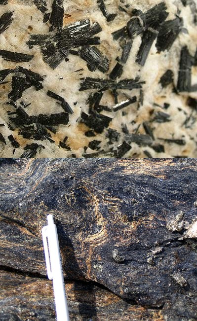 Glaucophane - rock-forming mineral of BlueSchist. This is a derivative work of File:Glaucophane-245532.jpg and File:Schistes bleus.jpg.